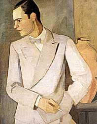 Portrait of İsmail Hakkı Oygar by his wife.